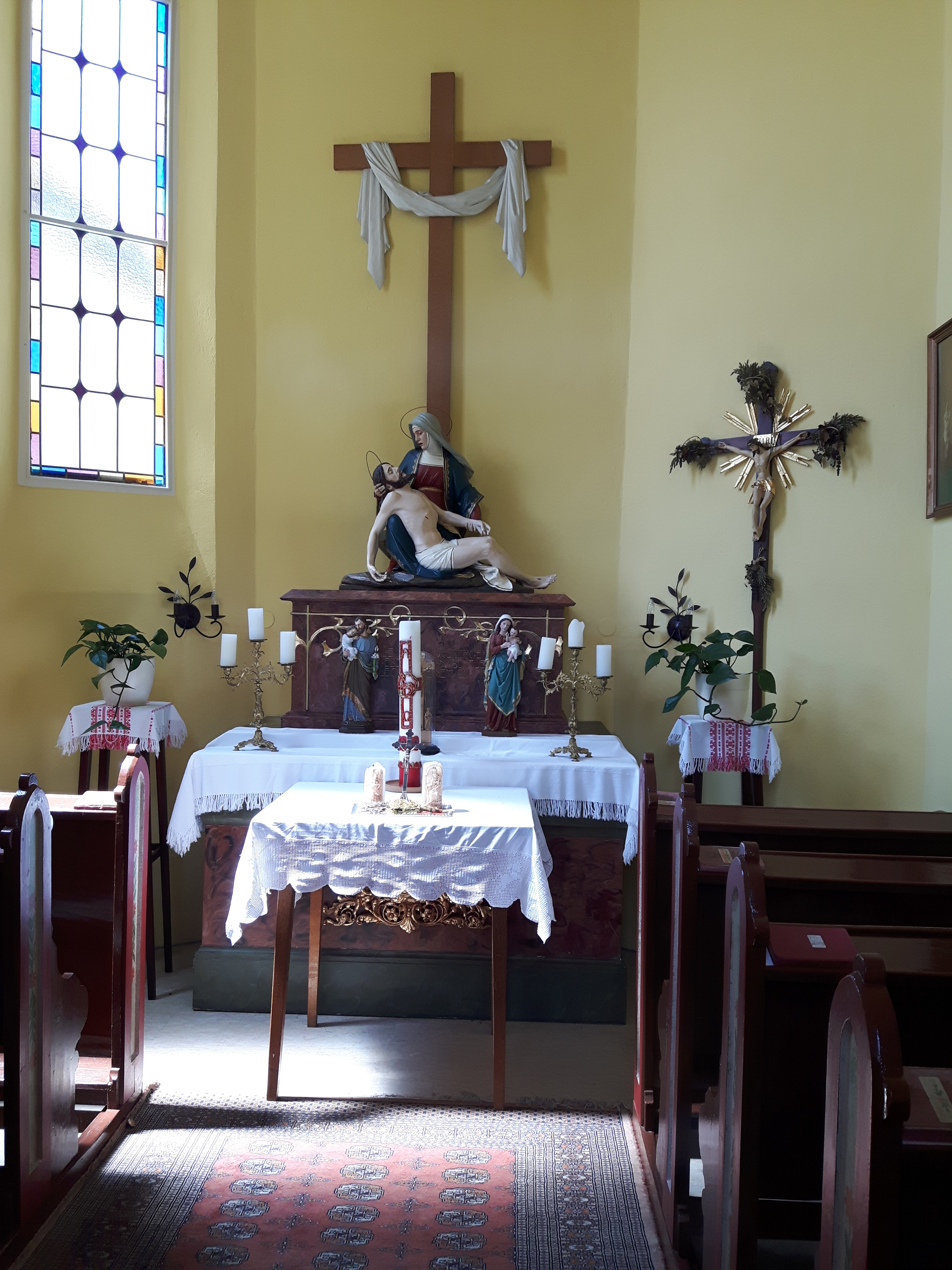 The chapel in Berndorf in Hitzendorf, Styria, Austria